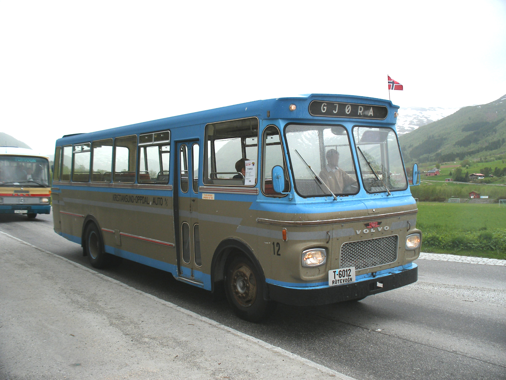 Old bus from Norway. Volvo B54 bus, VBK body. Kristiansund Oppdal Auto.